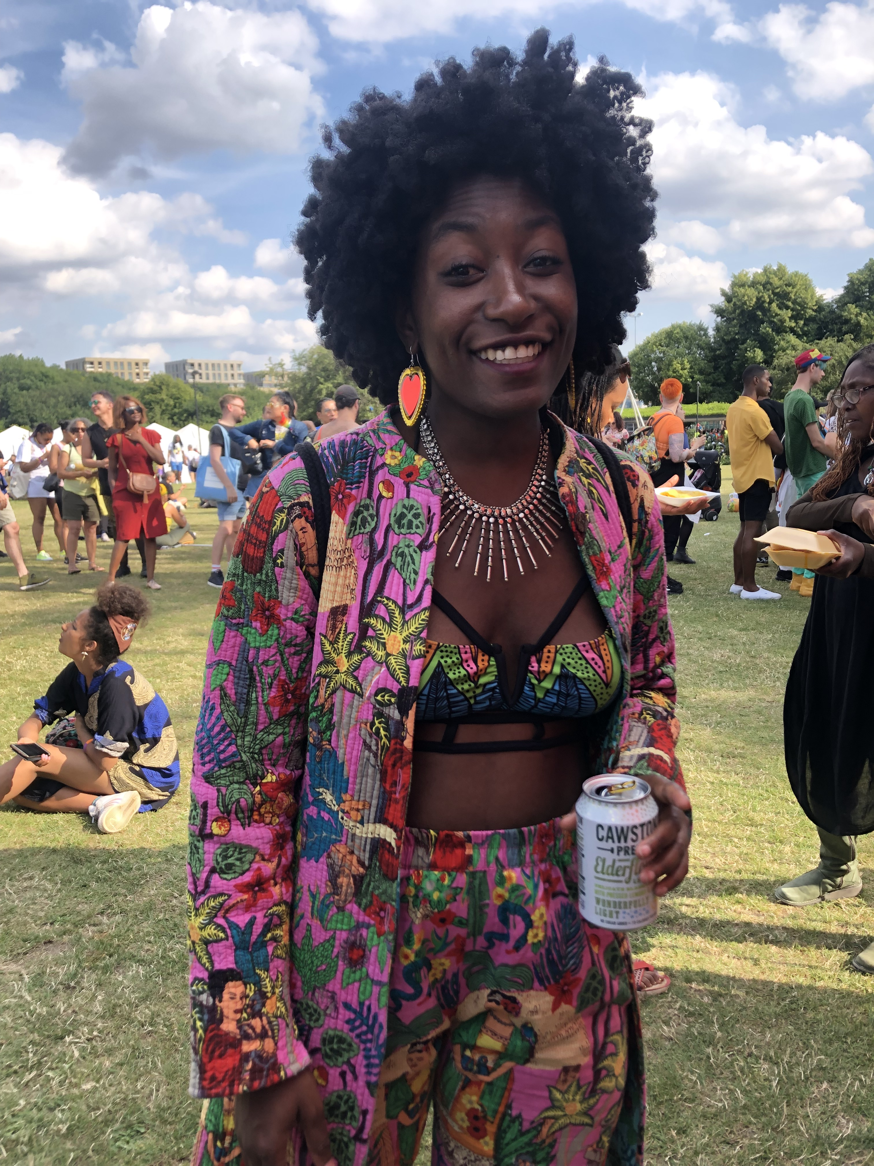 Comedian Sophie Duker at UK Black Pride 2019, Haggerston Park, Hackney, LondonLocation: UK, London Event type: LGBT+ Pride Festival Date or year: 2019